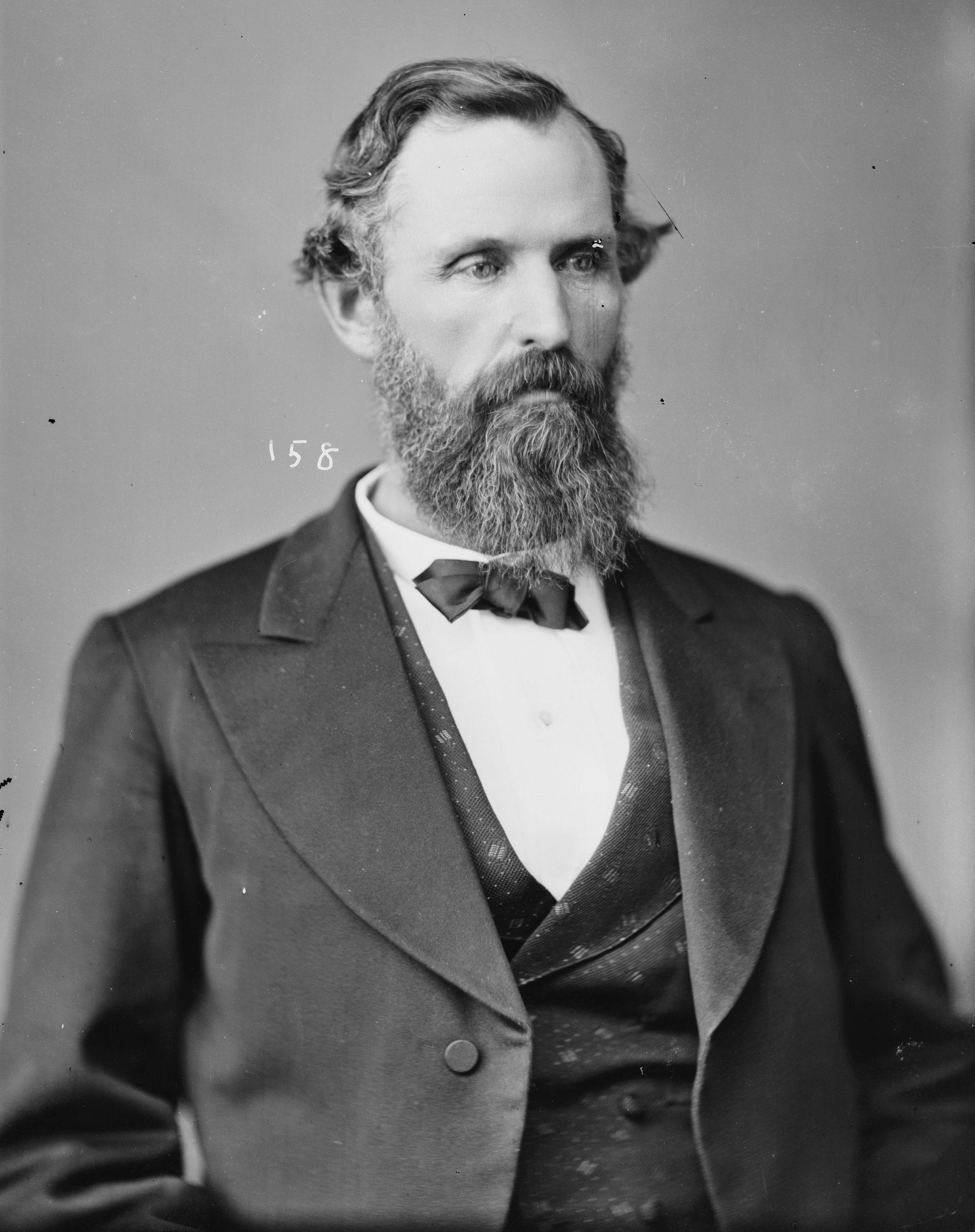 Hiram Parks Bell. TITLE: Hiram P. Bell of Ga. M.C. . Annotation from negative, inked on emulsion: 158; scratched into emulsion: Hiram P. Bell, X M.C., Ga., 158, 1336 [crossed out]; Ink on tape: Hon. H. P. Bell, Ga., 27718, CC. Annotation on outer sleeve: Bell, Hon. Hiram P. of Ga. Member of secession convention of 1861. Forms part of Brady-Handy Photograph Collection (Library of Congress).